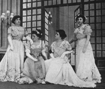 Escena del estreno la obra de teatro La fuente amarga de Manuel Linares Rivas en 1910